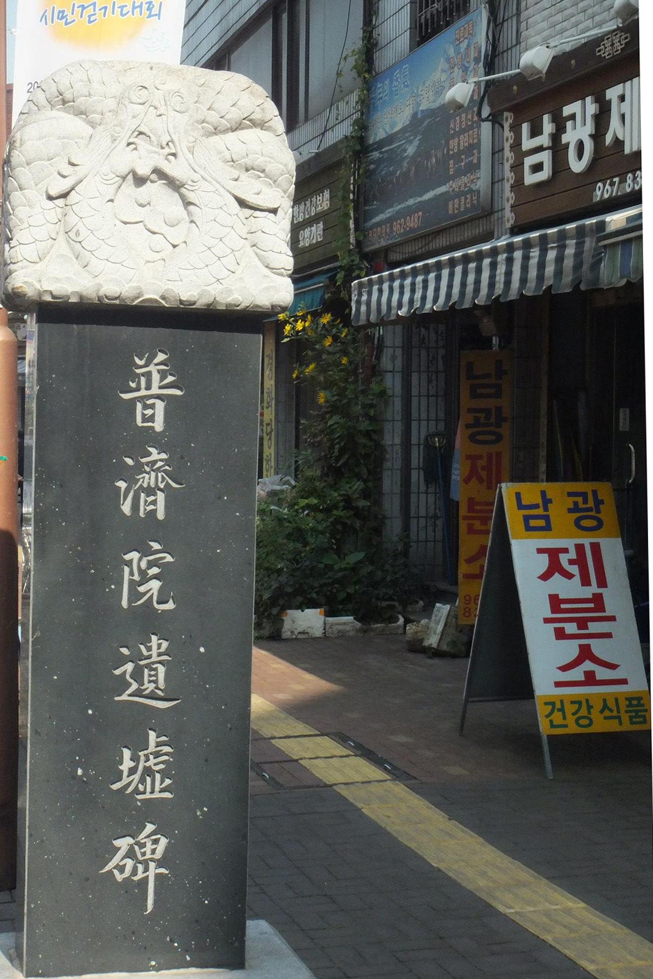 Memorial stone at the site of the former public welfare and medical care institution Bojewon in Seoul (Korea)